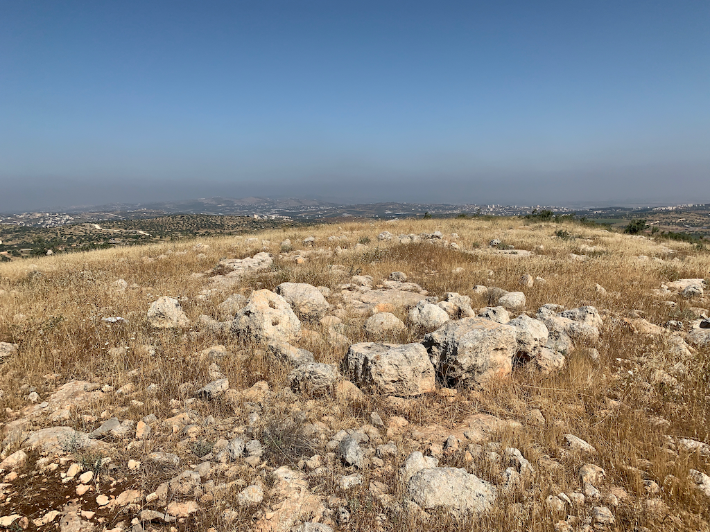 The Bull Site, an Iron I cultic installation in the Samarian Hills